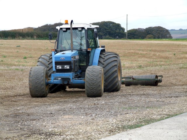 A Ford tractor pulling rollers, farm at Stainsby near to Ashby Puerorum, Lincolnshire, Great Britain.